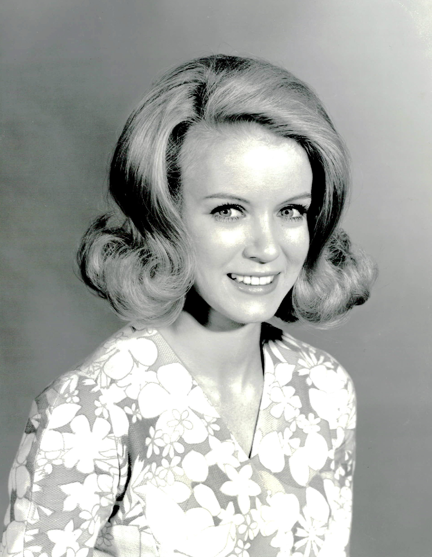 Photo of Donna Mills from the daytime drama Love Is a Many Splendored Thing. Mills played the character of Sister Cecelia.